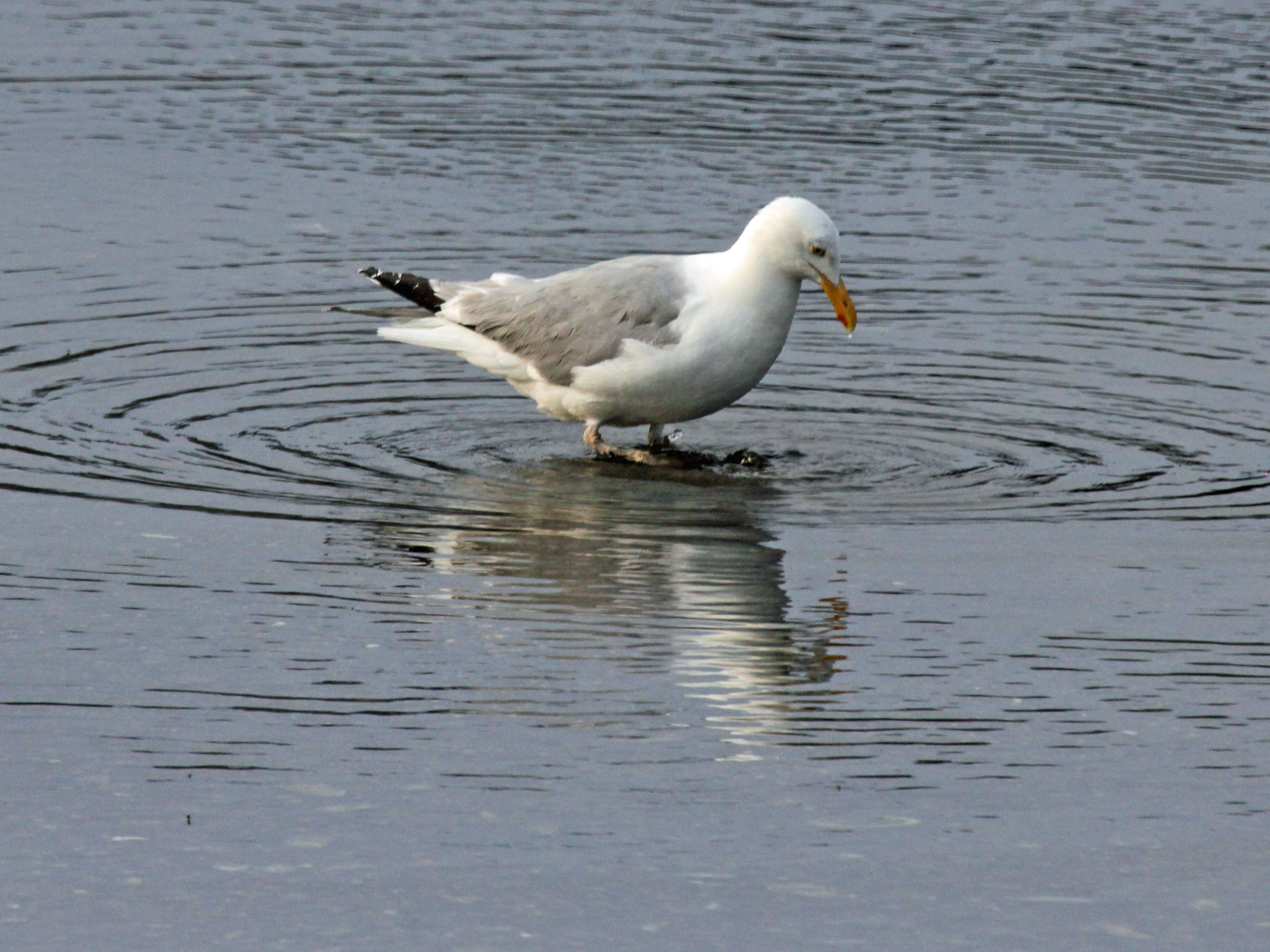 American Herring Gull (Larus smithsonianus) on McGee Island in Maine. The concentric circles of waves were caused by the gull rapidly stomping its feet to help find prey. As it stomped its feet it also slowly rotated in a circle.